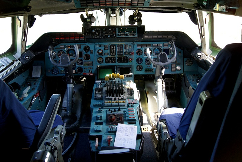 An-225 cockpit